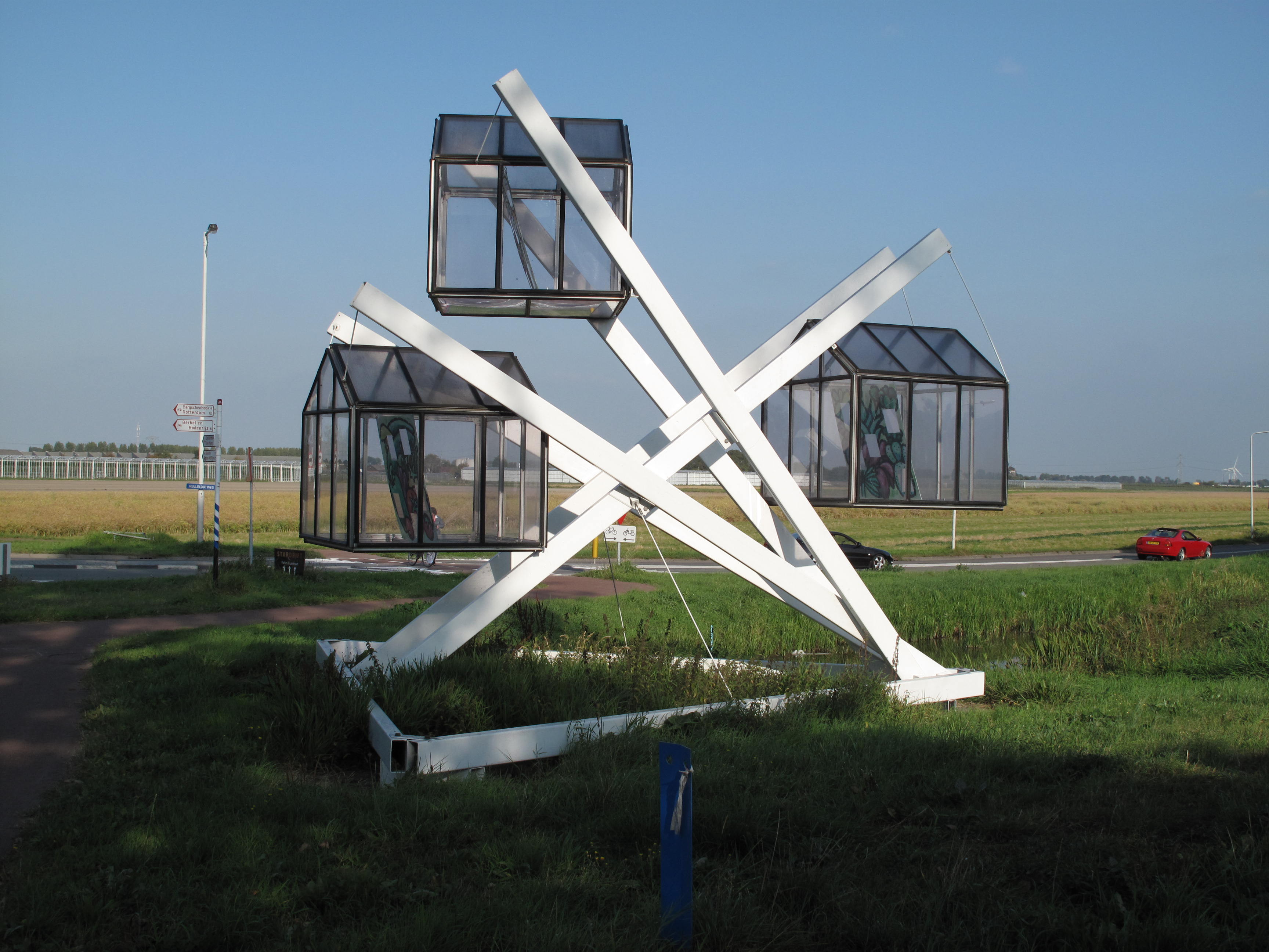 Bleiswijk, modern art in the street